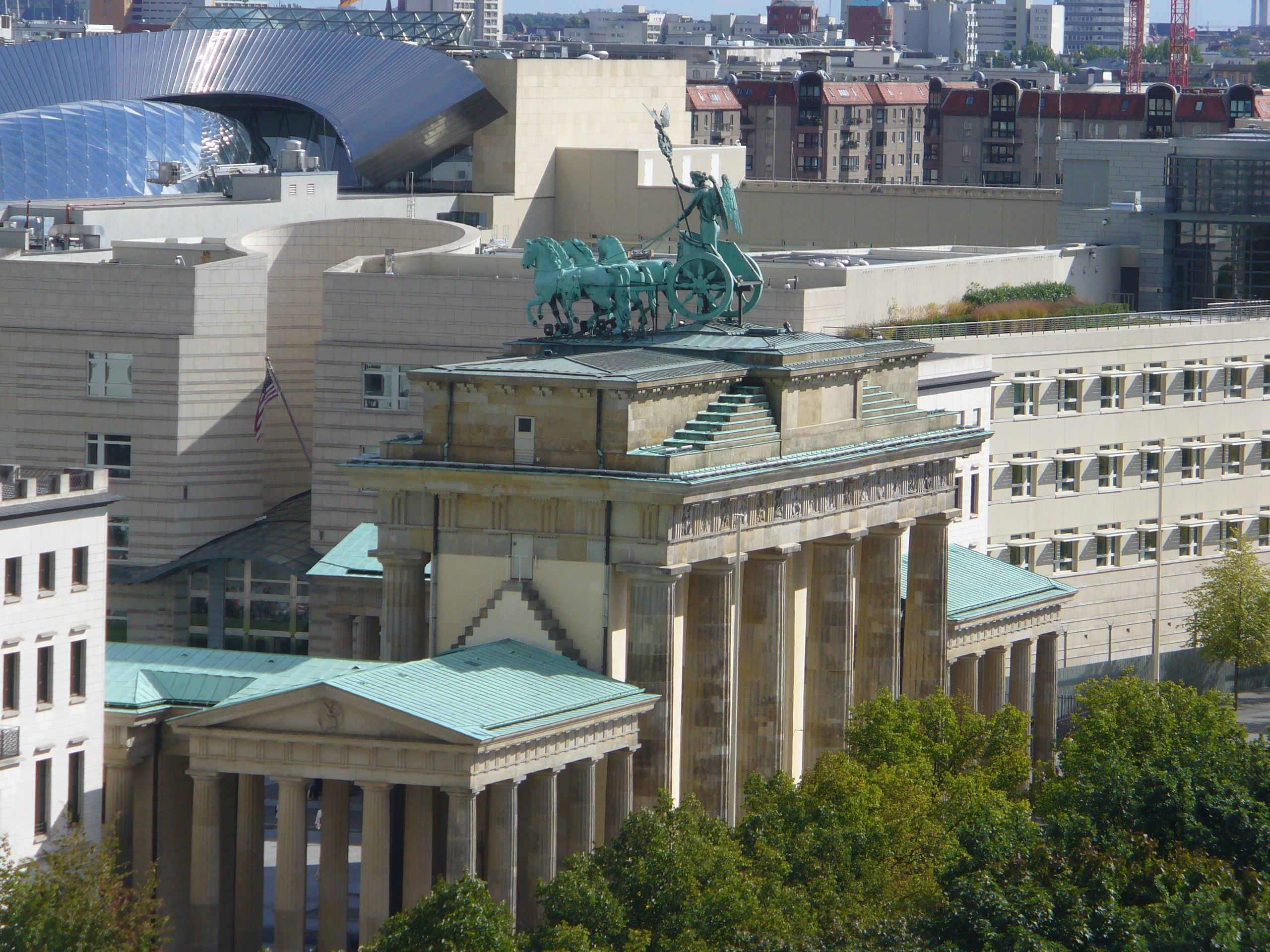 A view from the rooftop terrace of the Reichstag building, looking south. The Brandenburg Gate in seen in the foreground, with the United States Embassy in the background. The grey structure on the embassy's roof (top right corner of the photograph) is thought to contain surveillance (espionage) equipment.